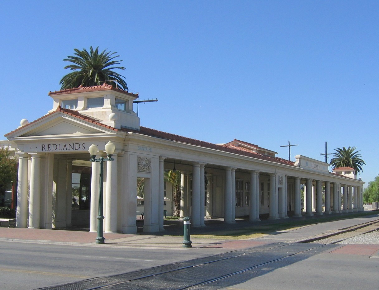 Abandoned AT&SF station in downtown Redlands, built in 1910, but still in pretty good condition.